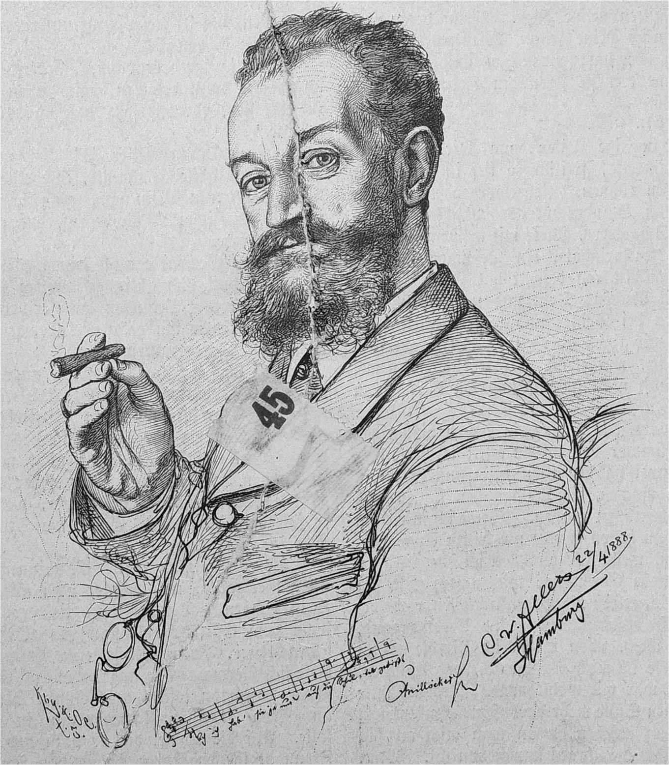 Portrait of Karl Millöcker